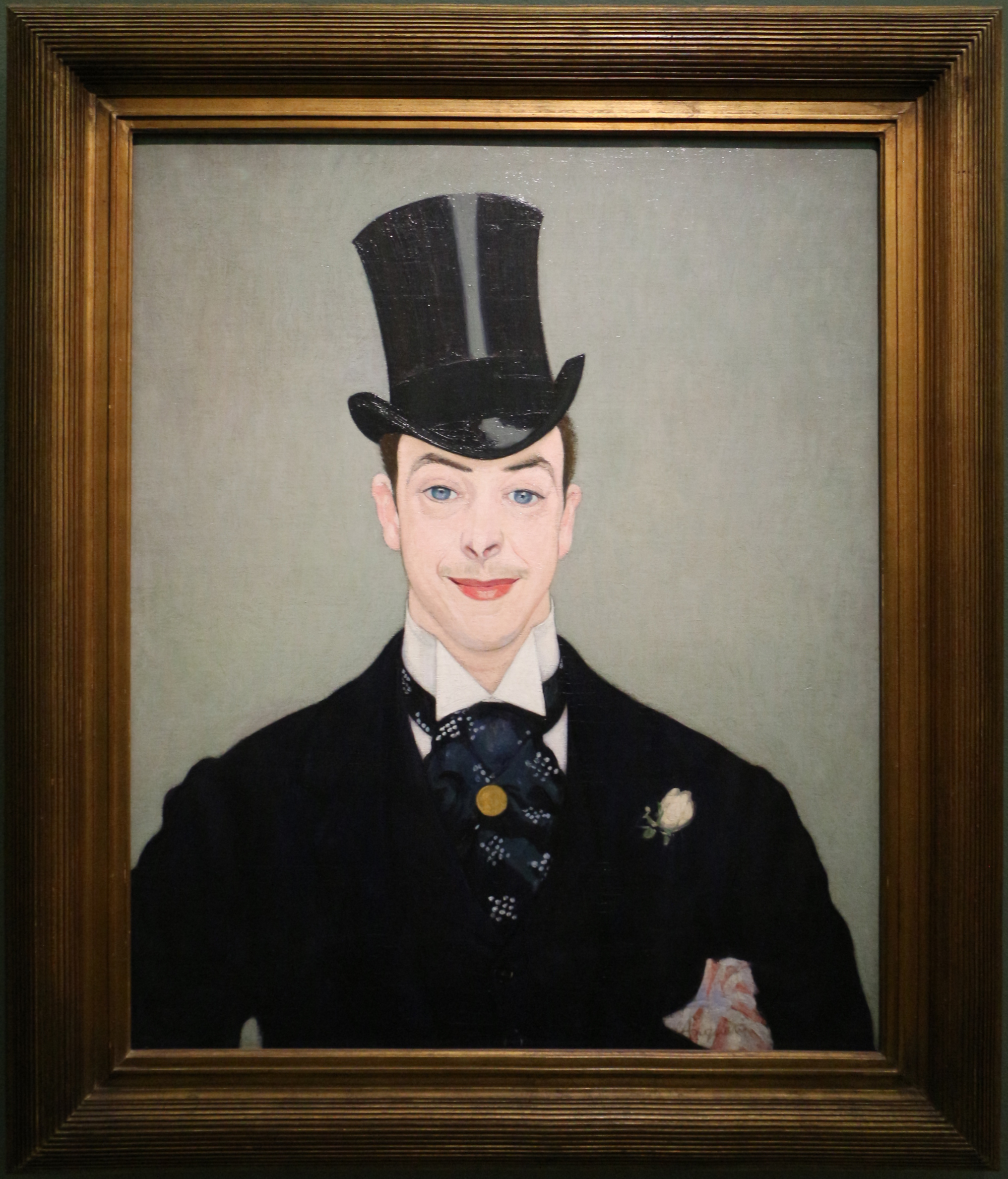 Paintings in Musée d'Orsay